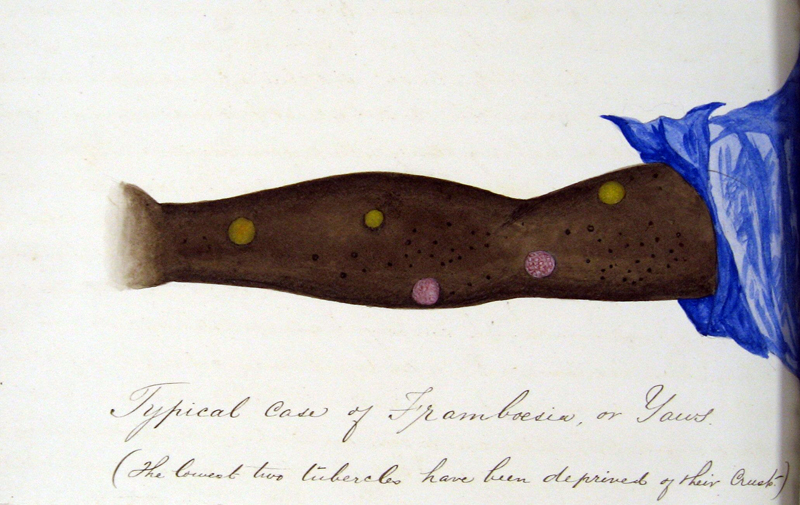 Description: Page from Surgeon John O'Neill's illustrated journal of diseases on West Coast of Africa, written during his time on HM Gun Boat Decoy. Colour diagrams showing a "typical case of Framboesia or Yaws". Date: 1874 Our Catalogue Reference: ADM 101/148/48 This image is from the collections of The National Archives. Feel free to share it within the spirit of the Commons. For high quality reproductions of any item from our collection please contact our image library.